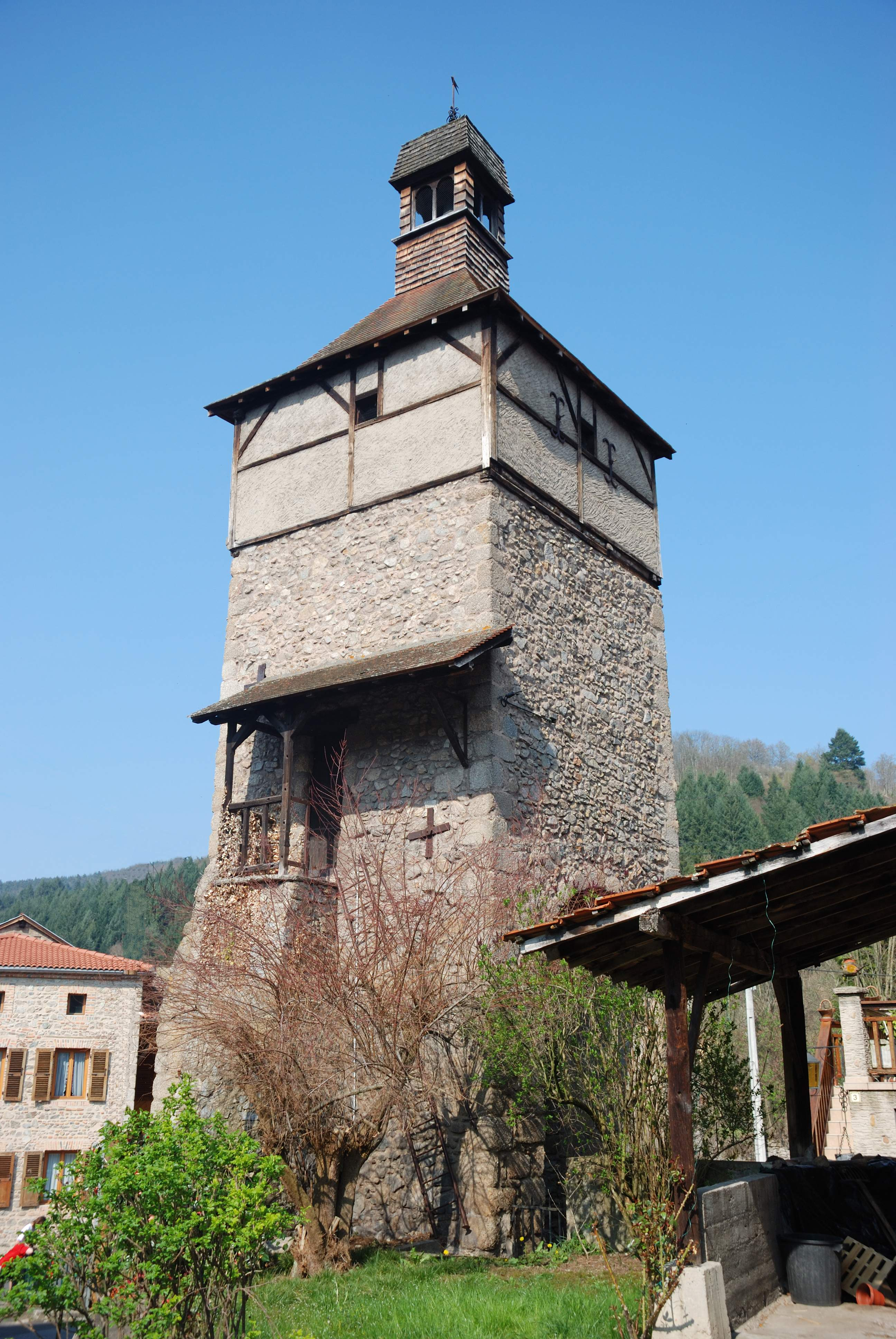 Châteldon : clock tower XIVth century (Puy-de-Dôme, France).